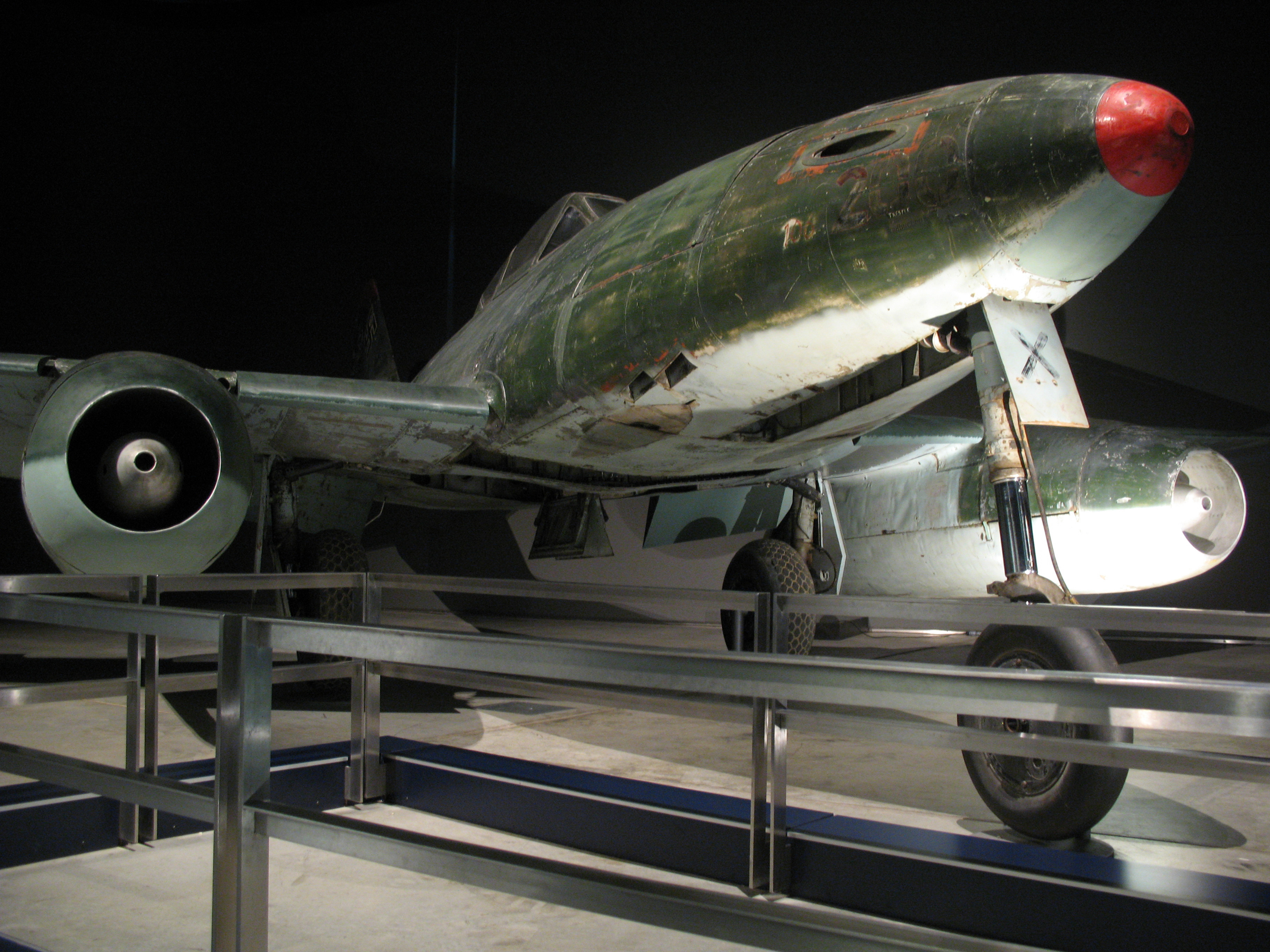 Me 262A-2a (Werknummer 500200) on display at the Australian War Memorial in Canberra, Australia.